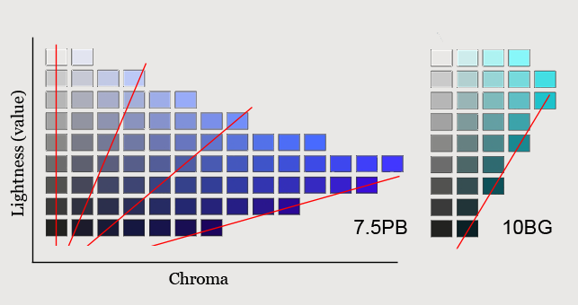 7.5PB and 10BG Munsell hue pages of digital colours, showing lines of uniform saturation (chroma in proportion to lightness) in red